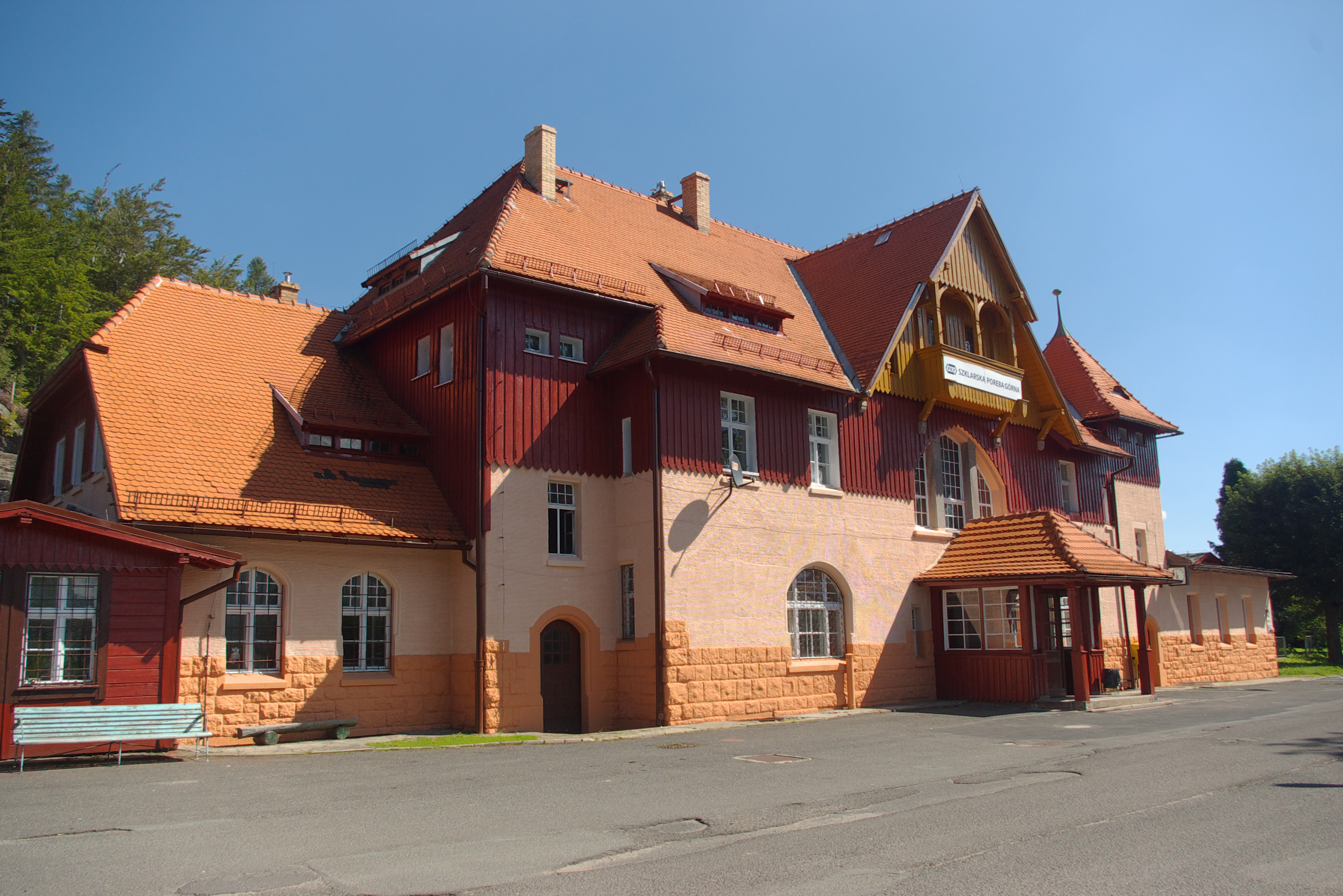 Railway Station Szklarska Poręba Górna - the Main Building